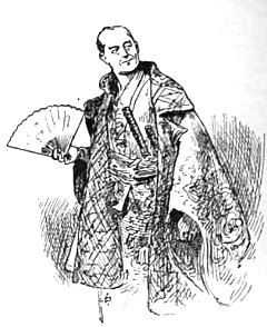 Published illustration of Frederick Bovill as Pish-Tush in The Mikado (1885)